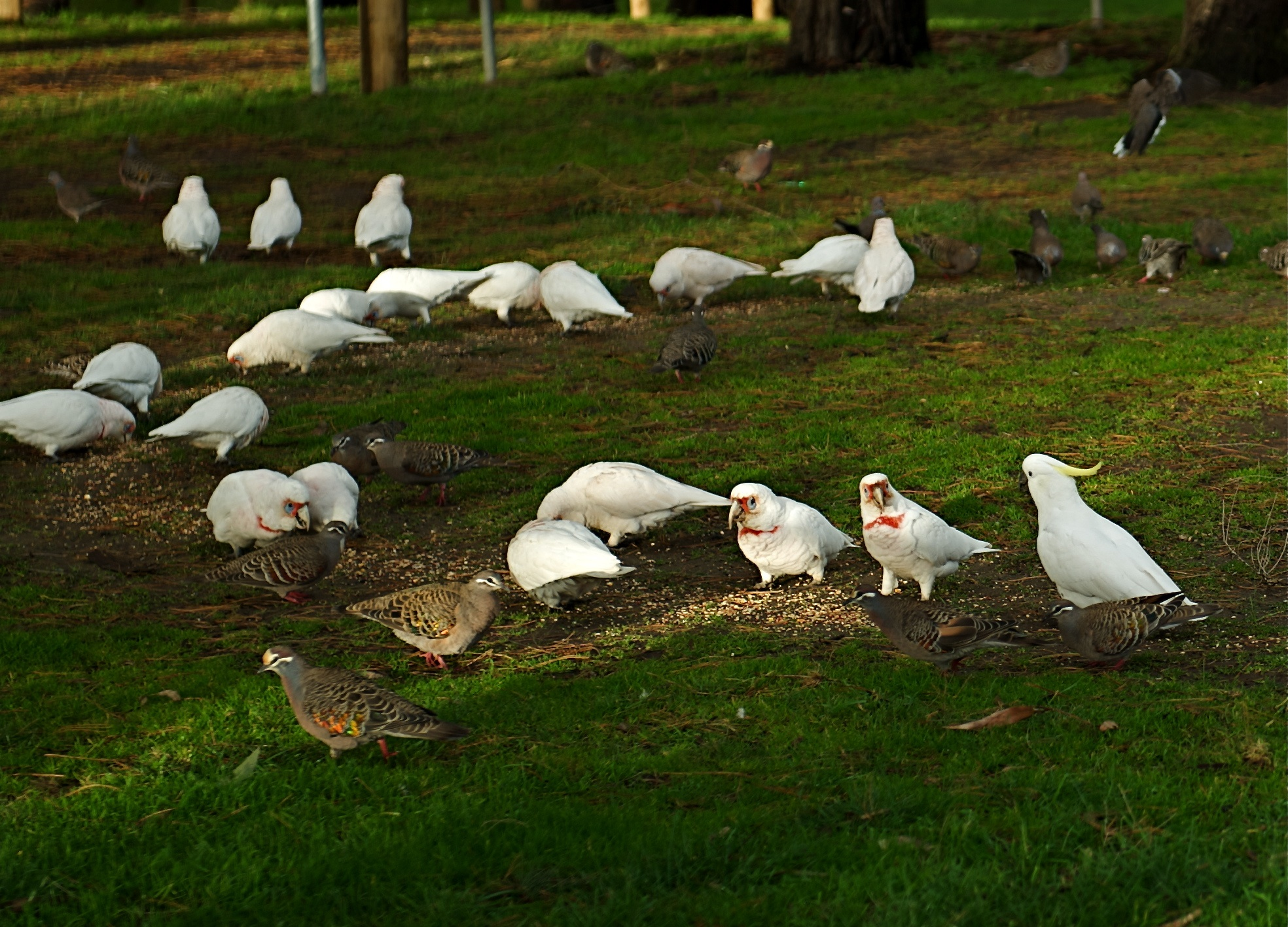 Mainly Long-billed Corellas and Common Bronzewing doves feeding in Melbourne, Australia. There is one Sulphur-crested Cockatoo on the right of the photograph.